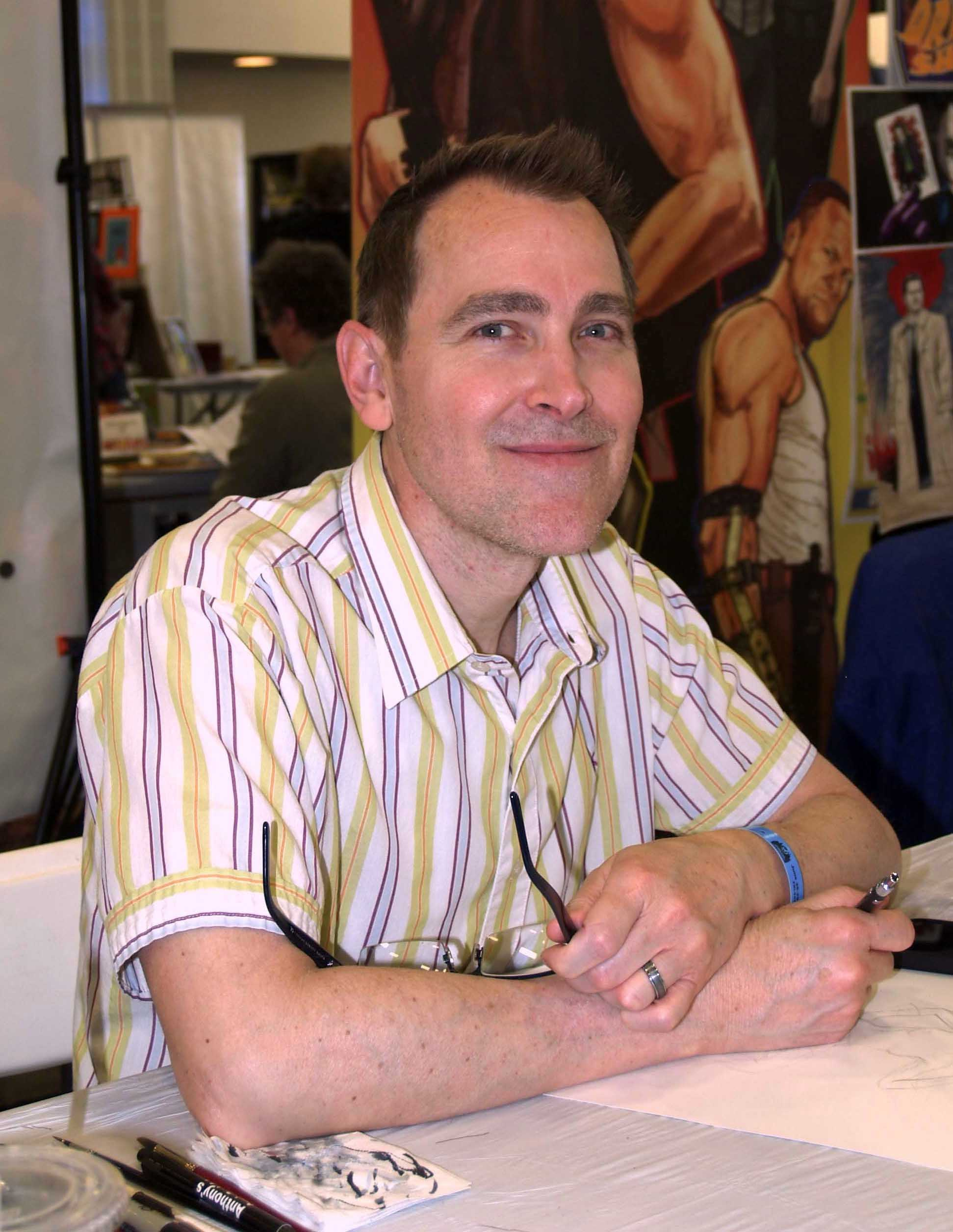 Comics artist J.G. Jones at the 2013 Wizard World New York Experience Comic Con, at Pier 36 in Manhatan, June 29, 2013. This photo was created by Luigi Novi. It is not in the public domain, and use of this file outside of the licensing terms is a copyright violation.